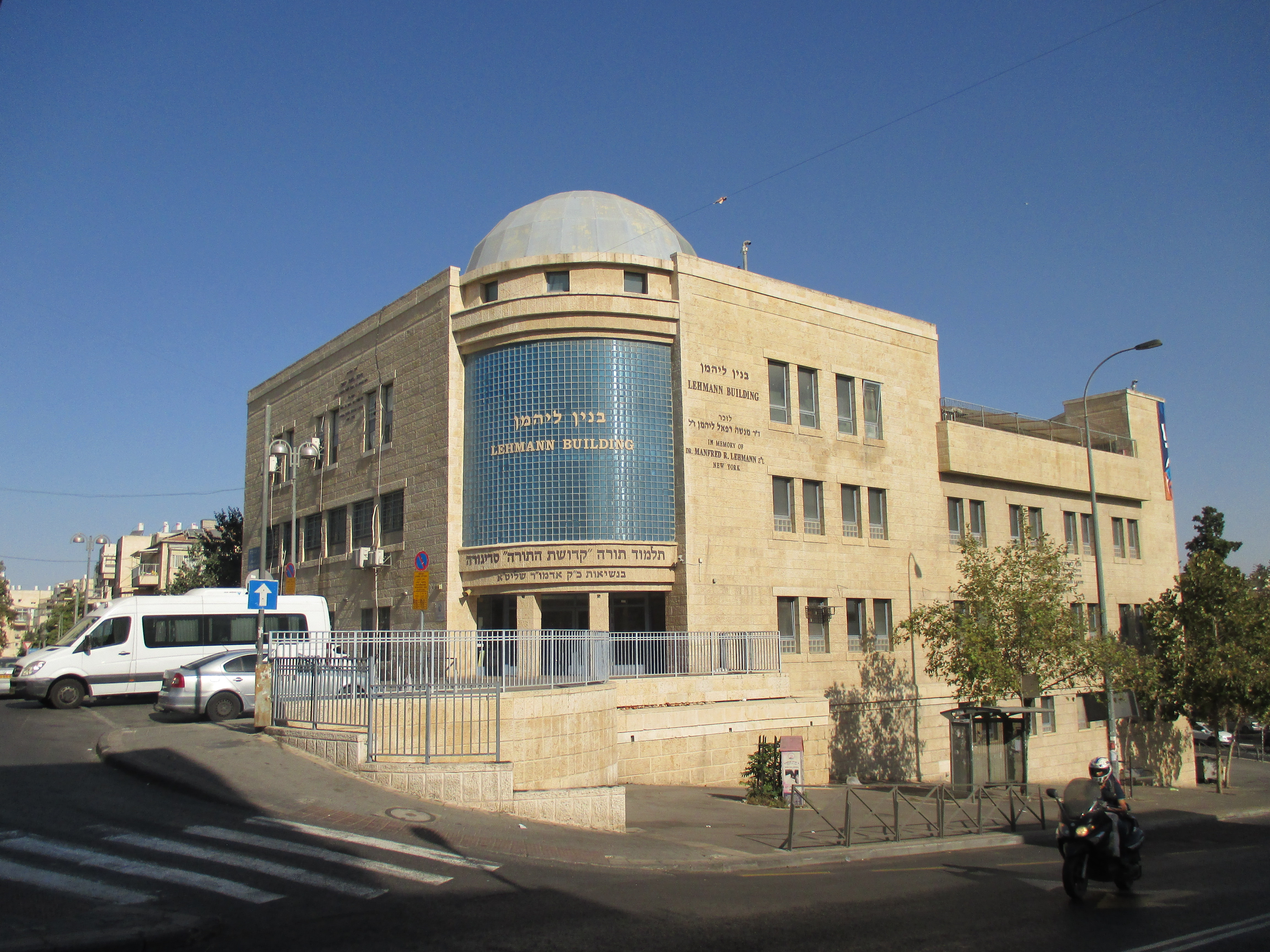 Jerusalem, corner of Yekhezkel and Avinadav streets